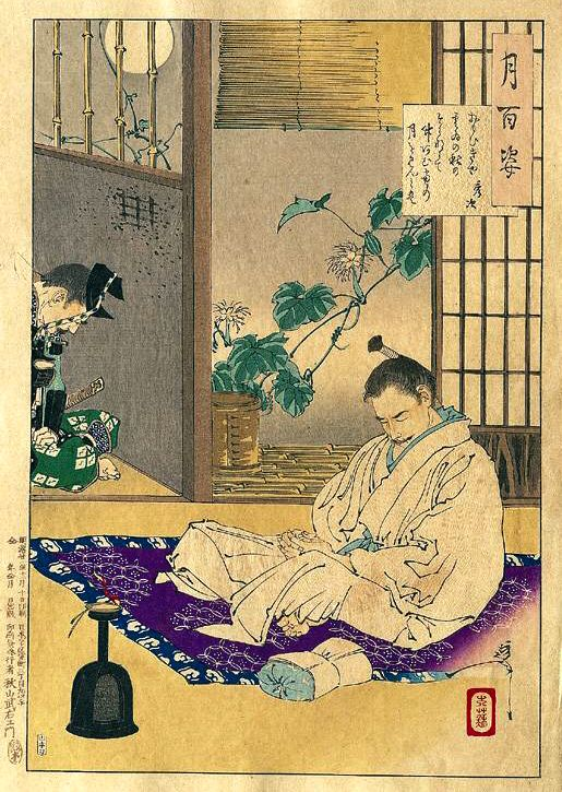 Hidetsugu in exile